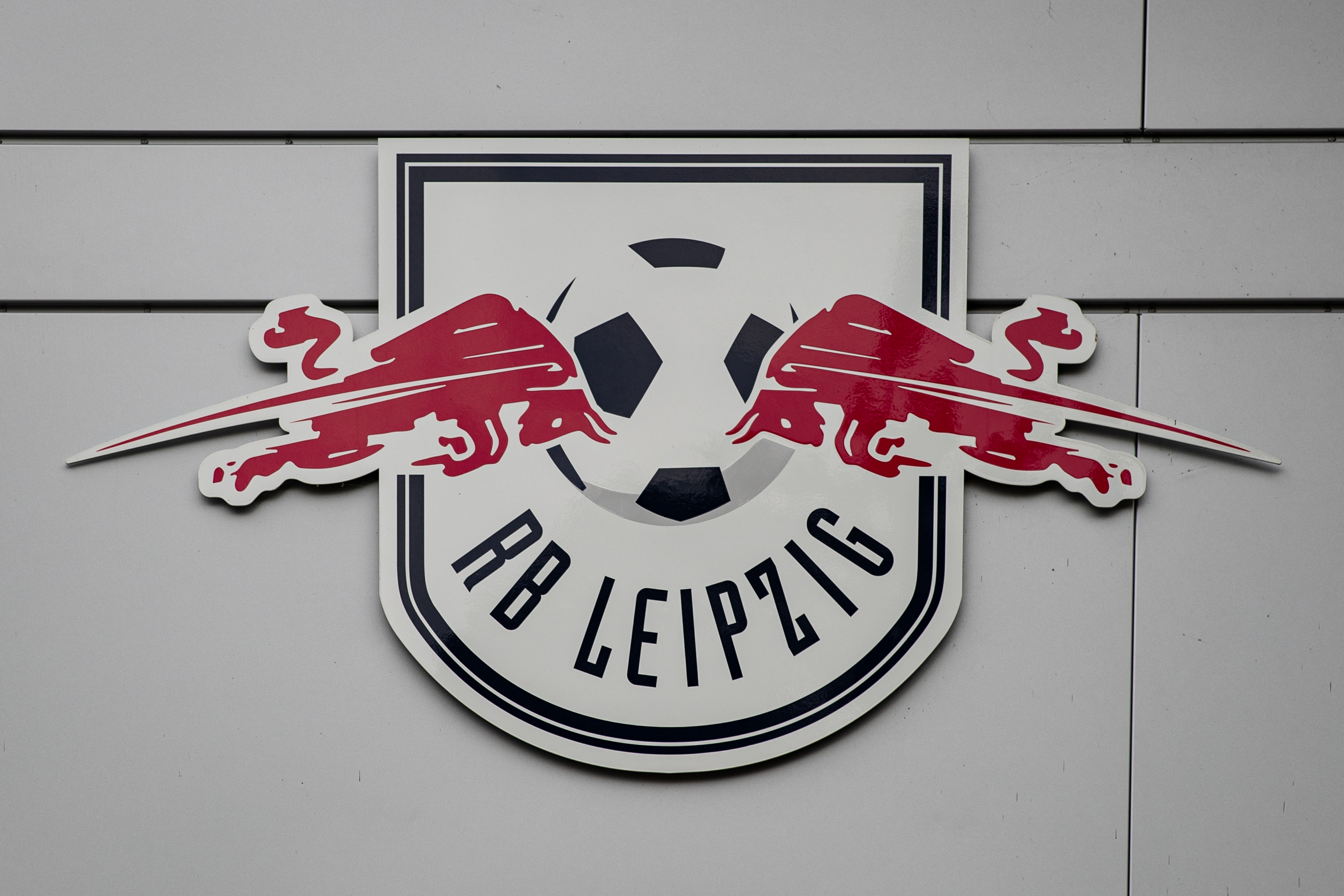 Logo of RB Leipzig at the wall of the practice centre at Cottaweg